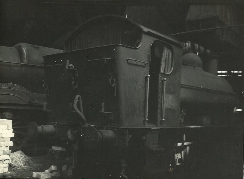 GWR Churchward "1361" 0-6-0ST No.1365 on shed at Old Oak Common, March 1963. Scanned from a photograph taken with Brownie 127 - hence doubtful quality.